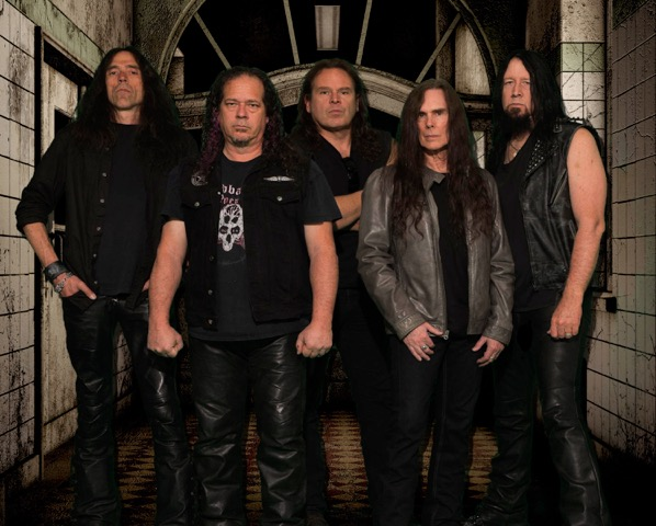 band photo